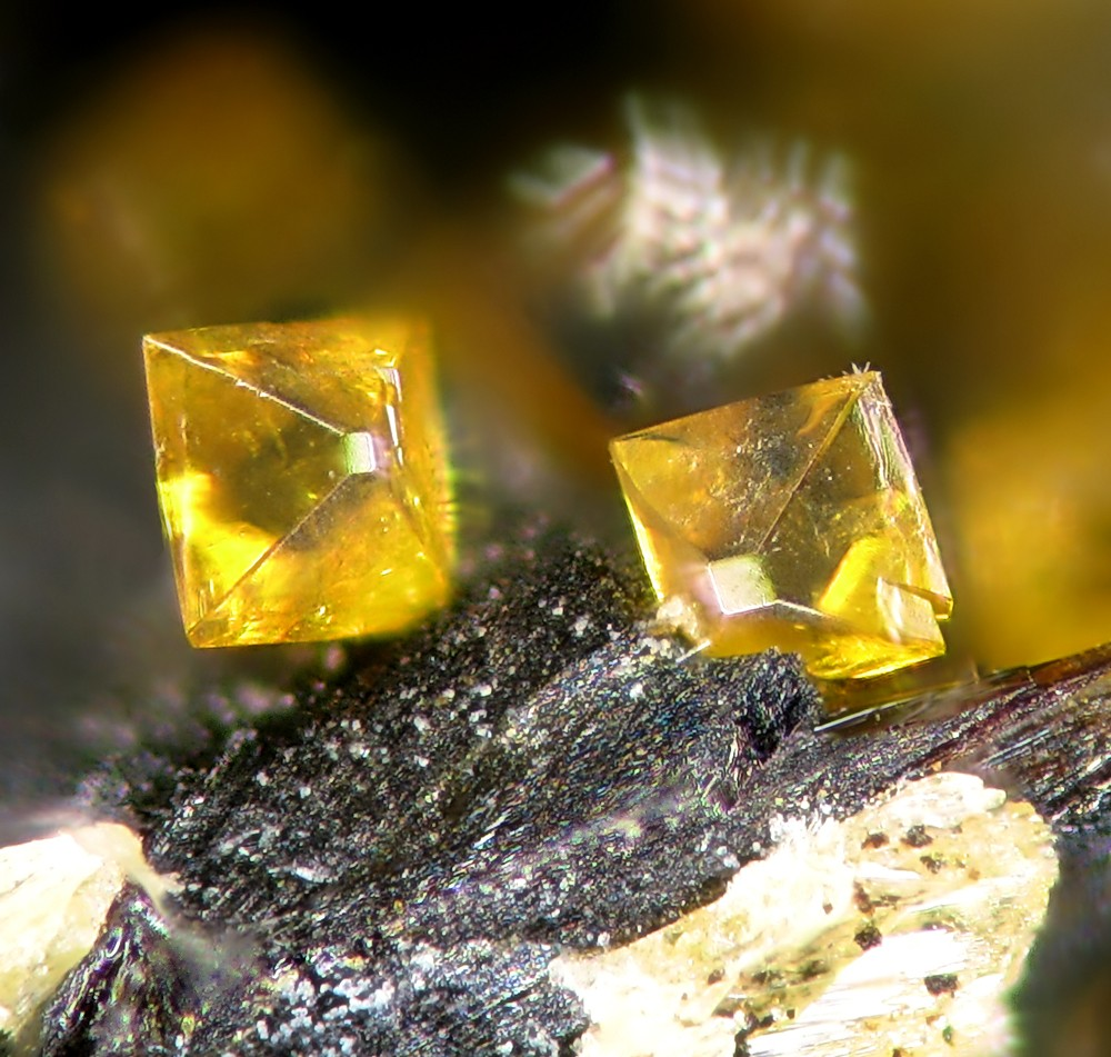 Cyrilovite Locality: Hagendorf South Pegmatite (Cornelia Mine; Hagendorf South Open Cut), Hagendorf, Waidhaus, Vohenstrauß, Oberpfälzer Wald, Upper Palatinate, Bavaria, Germany (Locality at ) Picture width 1 mm. Collection and photograph Christian Rewitzer This Photo was Photo of the Day - 17th Jun 2008